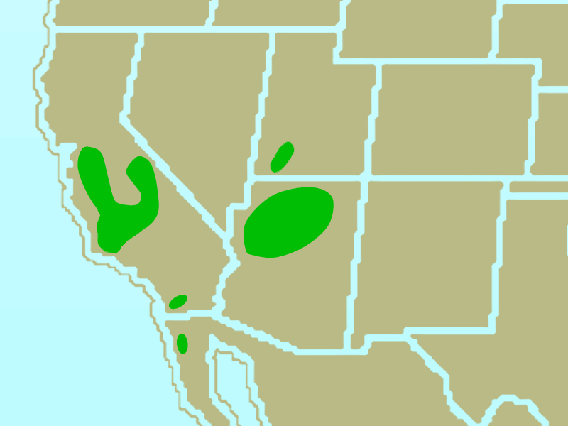 California Condor range map